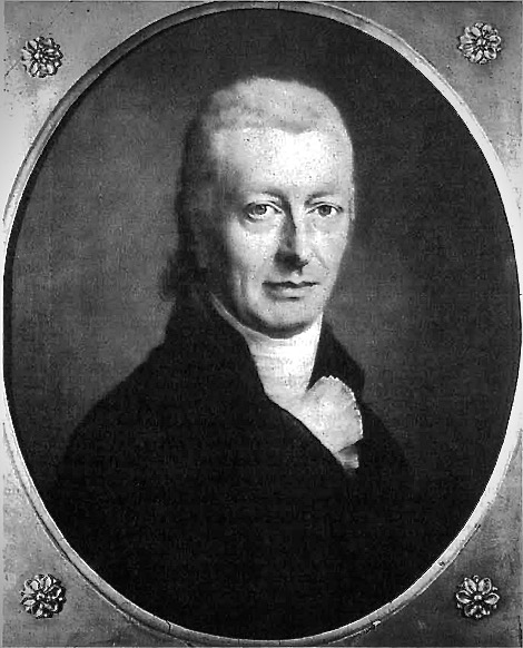 Portrait of Johannes Hendricus van der Palm. Painting on unidentified base.